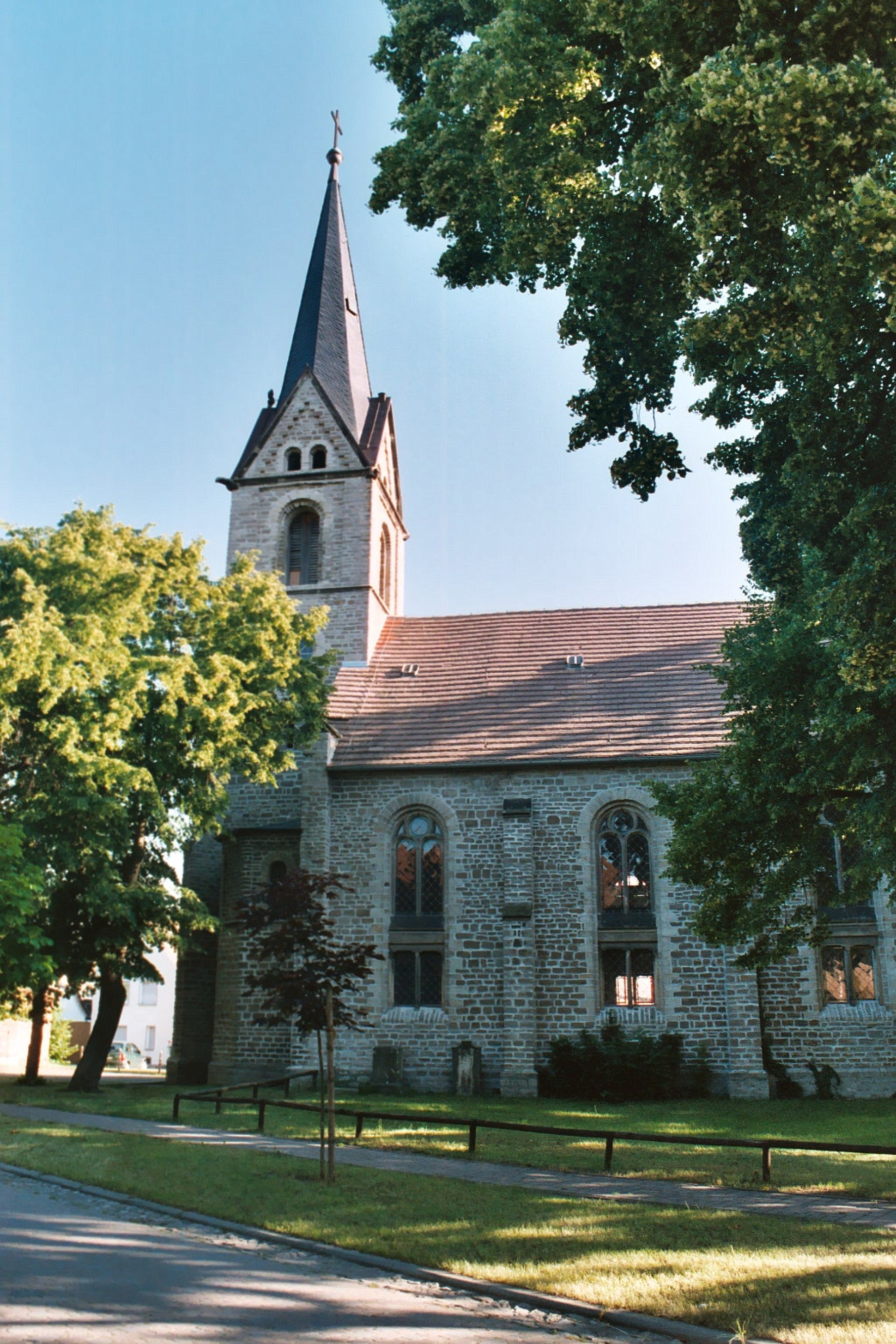 Pömmelte (Barby), the village church